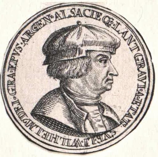 Wilhelm von Hohnstein (+ 1541) Bischof von Straßburg, Generalvikar von Mainz